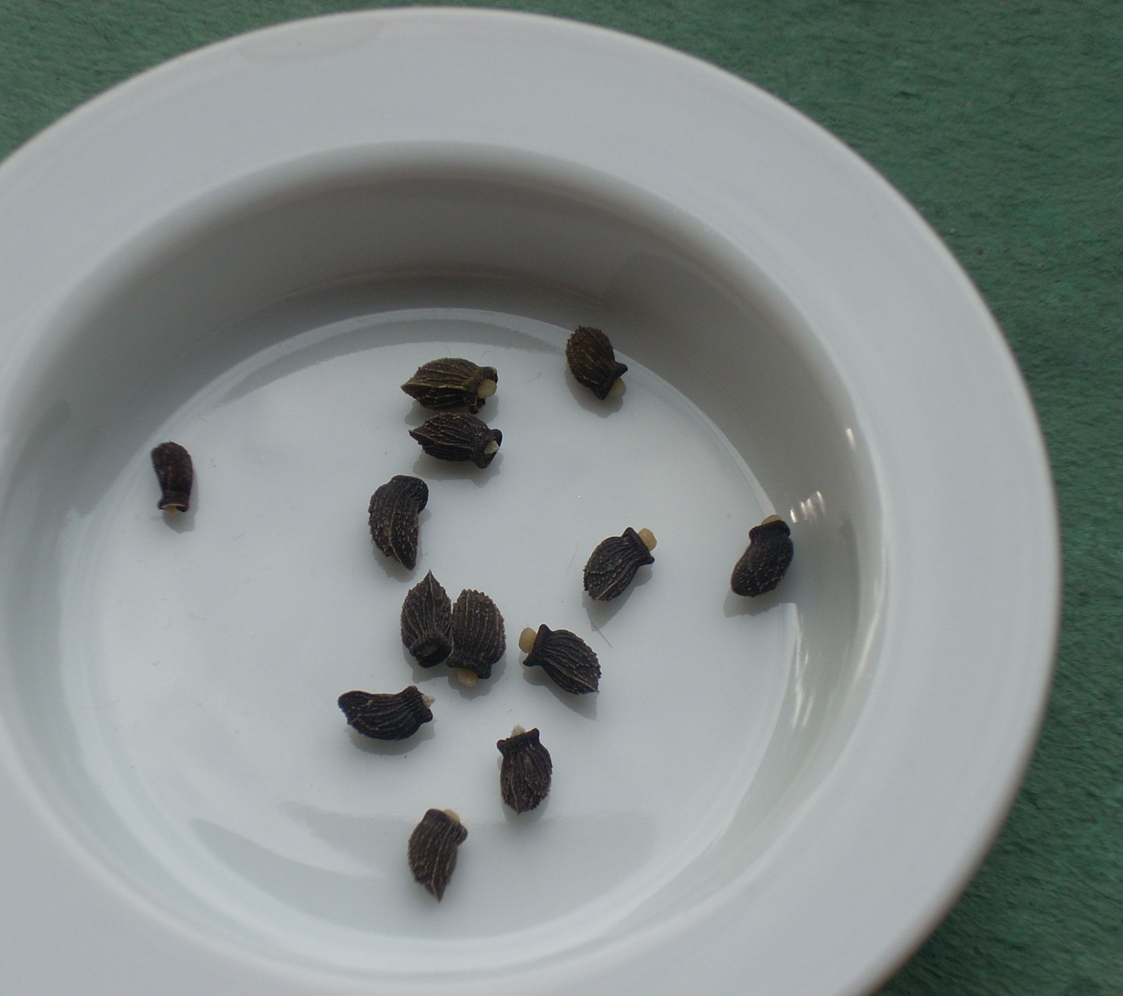 Borage